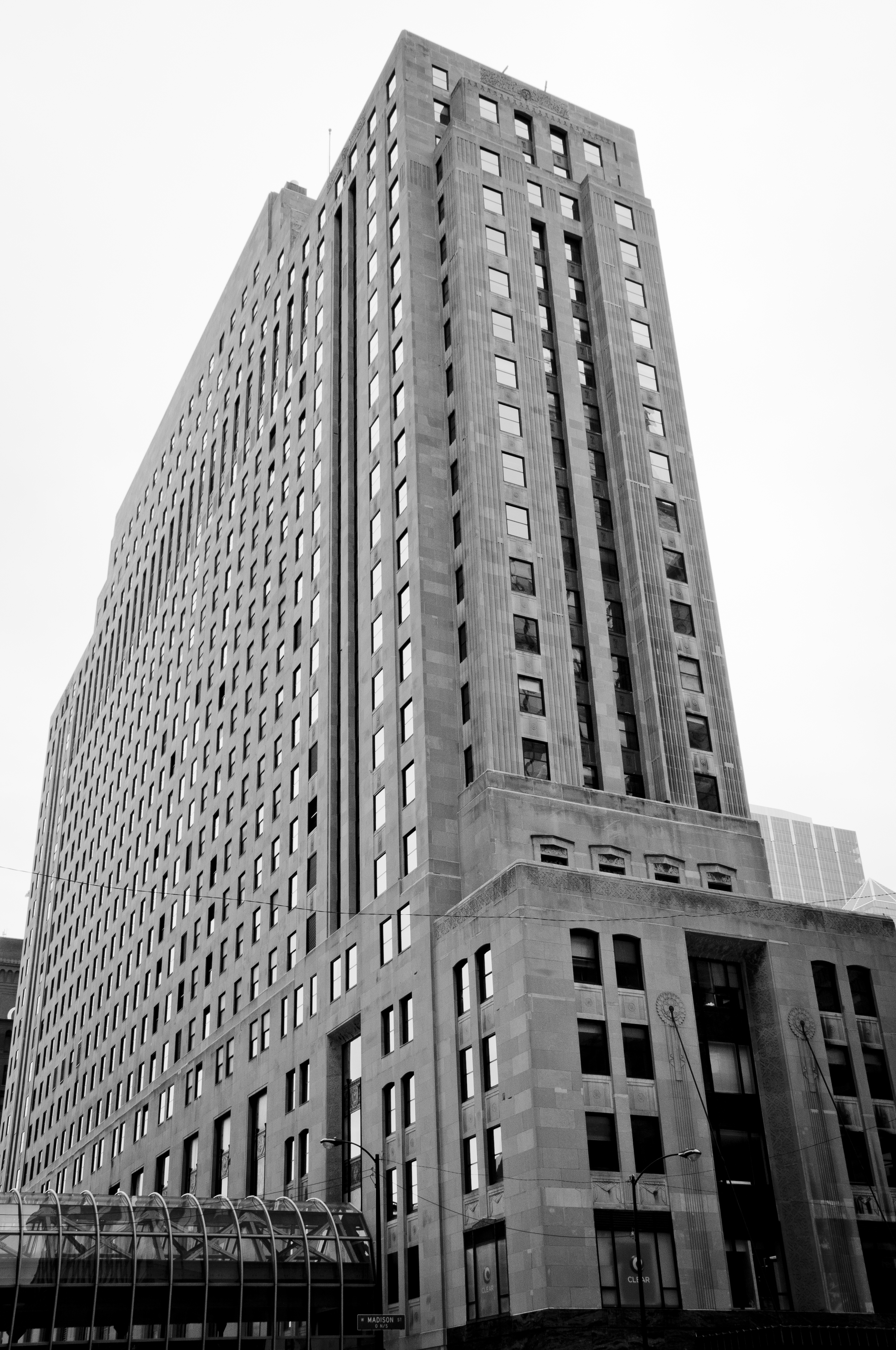 Chicago Daily News Building